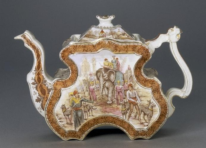 Teapot, 1896, Burgess & Leigh V&A Museum no. C.277&A-1983 Techniques: Earthenware, lead-glazed, transfer-printed, painted and gilded Place: Burslem, England Dimensions: Height 16.8 cm, Width 24.9 cm, Depth 9.5 cm Object Type: Teapots seemed always to offer scope for the designer's imagination. Some examples used camels, monkeys or people as figures of fun, completely abandoning any relevance and entering the realms of novelty and sometimes of impracticability. This teapot borders on the whimsical and would certainly have provided a topic for conversation at teatime. Materials & Making: The complex shape added considerably to the difficulties of making and applying the pattern. It was slip-cast in a convoluted mould but the material is earthenware (the cheapest to fire) and the decoration is transfer-printed. Design & Designing: This highly elaborate teapot shows an Indian scene, with an elephant, British and Indian people and hunting dogs. Traditionally Chinese shapes and decoration were the most common for teawares, but here, in the Victorian days of Empire, India was favoured.